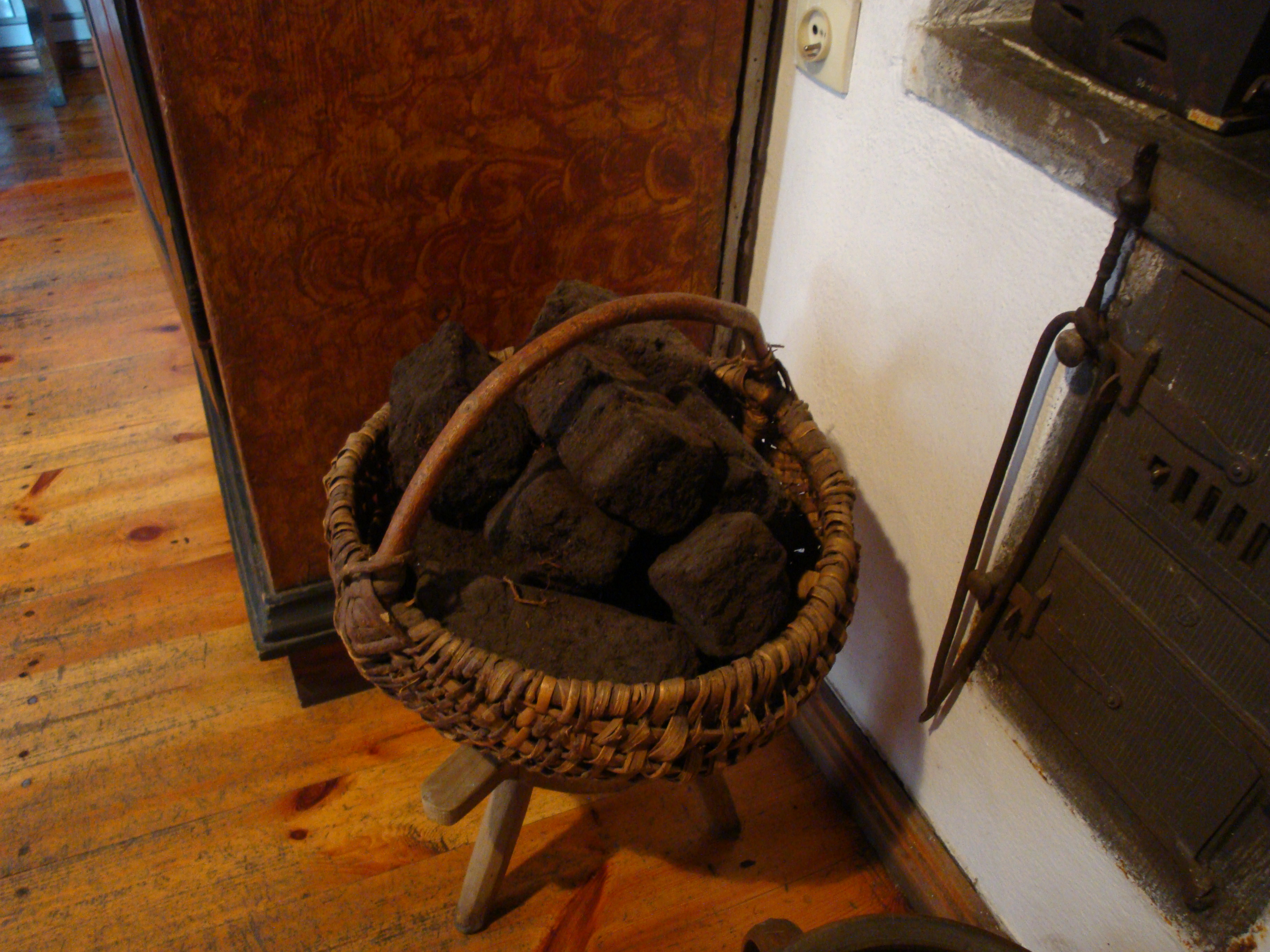 The Florian Ceynowa Museum of the Puck Region in Puck. Peat used as fuel for kitchen stove.